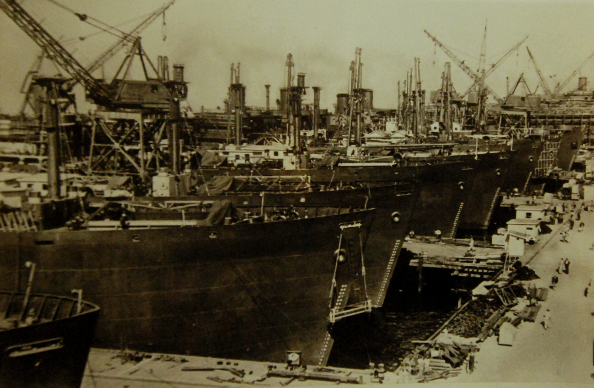 Lot-9427-4 (LC-USZ62-78607): Freighter Reinforcements Almost Ready For Sea. Machinery and cargo-handling equipment are being installed in a group of Liberty ships at the fitting out dock of a U.S. Shipyard. Soon, the ships will carry vital United Nations cargoes to world battlefronts. Photograph released March 1942 by Office of War Information. (2015/11/20).